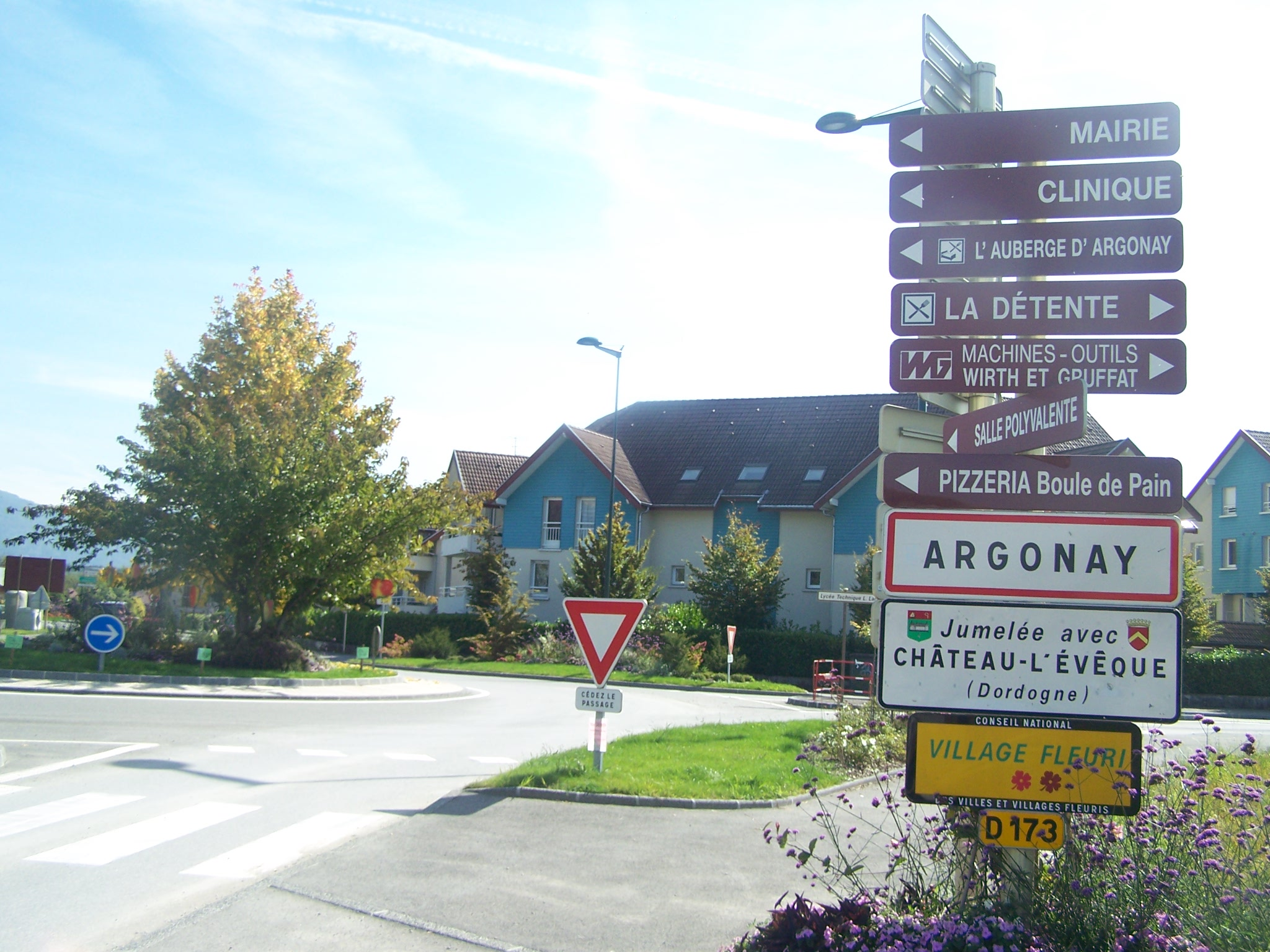 Sign welcoming visitors to the French city of Argonay in Haute-Savoie.